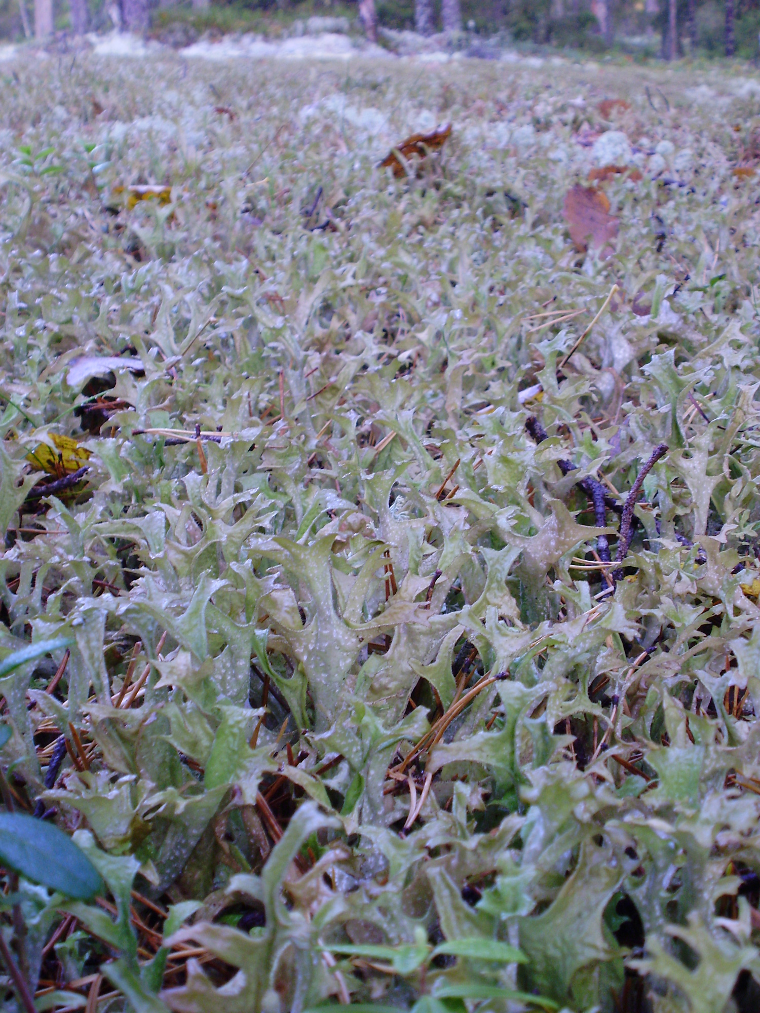 Iceland moss (Cetraria islandica) growing in a mat in the forests of middle Sweden.